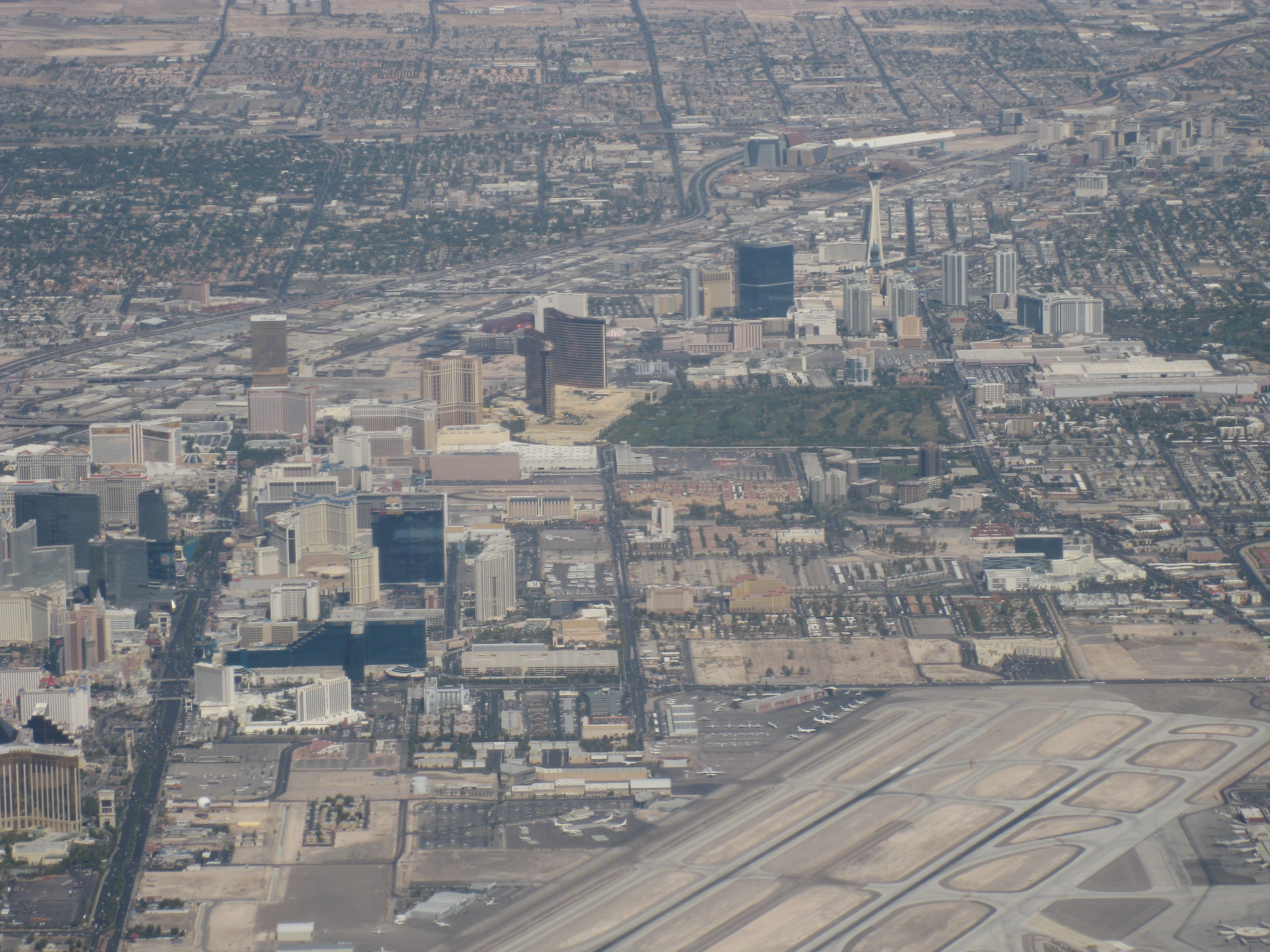 Aerial view of Las Vegas